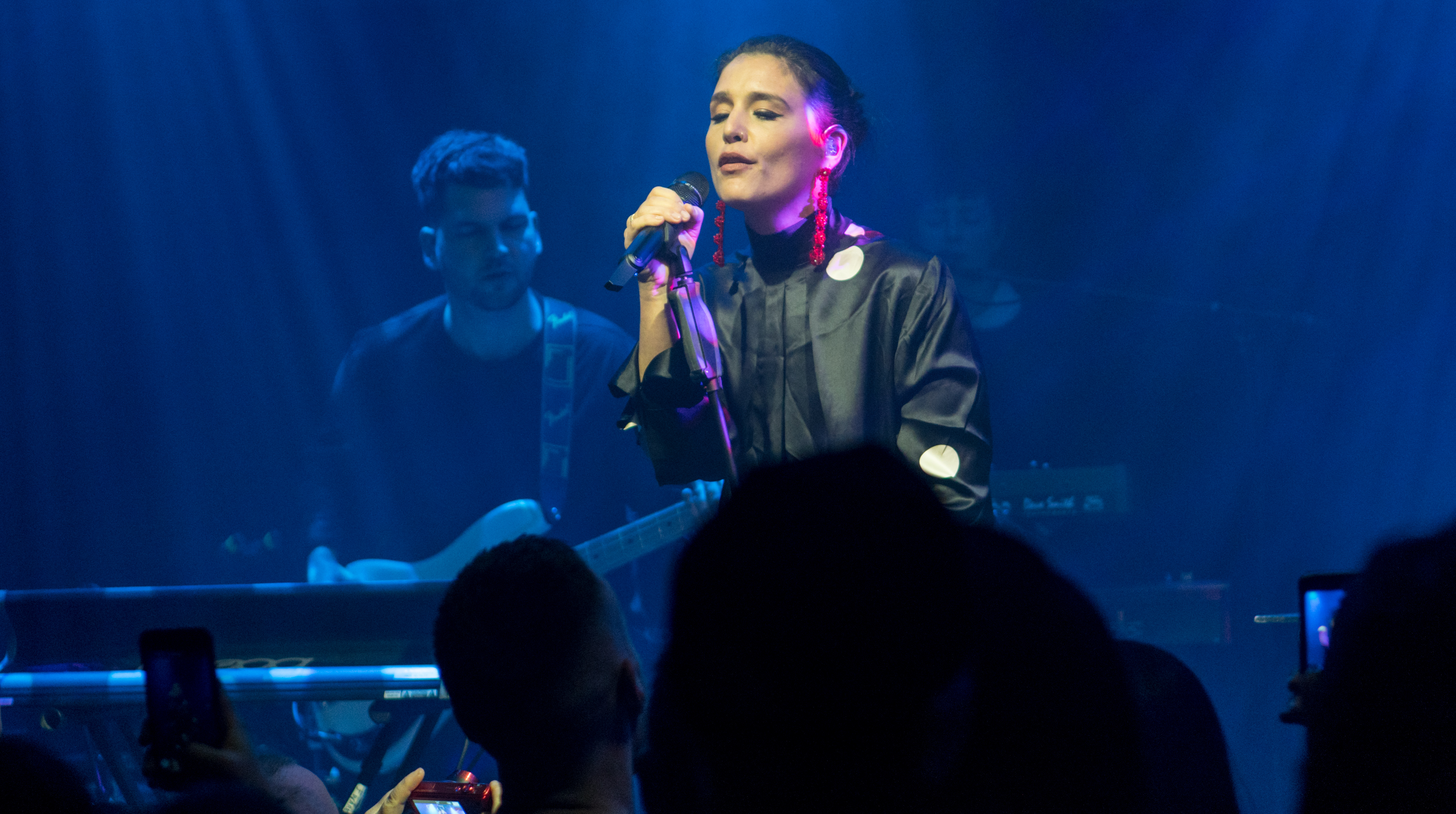 JessWareJazzCafe220218-14